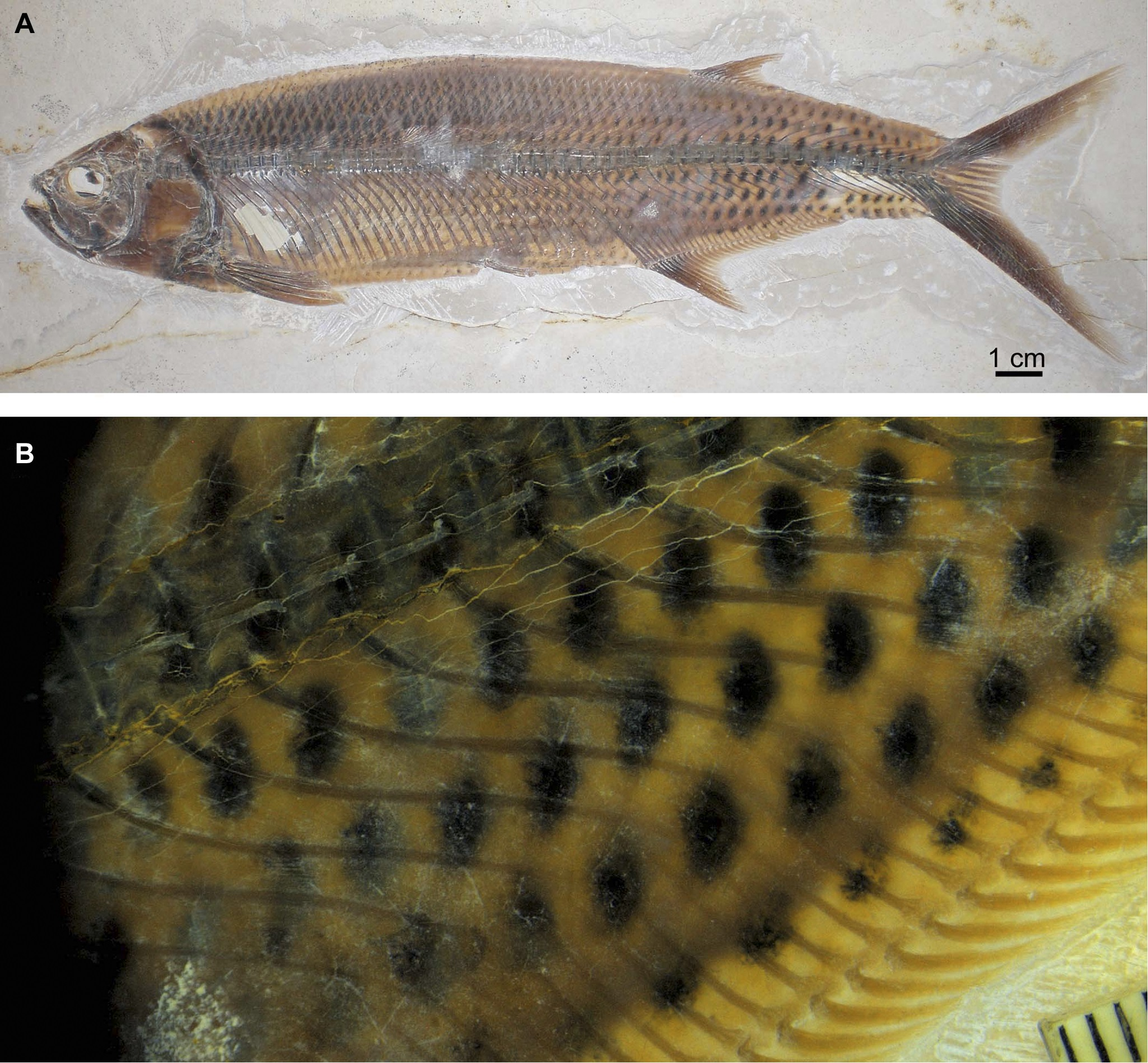 Preservation of color pattern in Ettling actinopterygians. A, Thrissops cf. formosus from Ettling (JME-ETT74, from Plattenkalk I), overview; B, close-up of the posteroventral region of JME-ETT74 immediately dorsal to the anal fin, showing color pattern preservation (scale bar in millimeters)